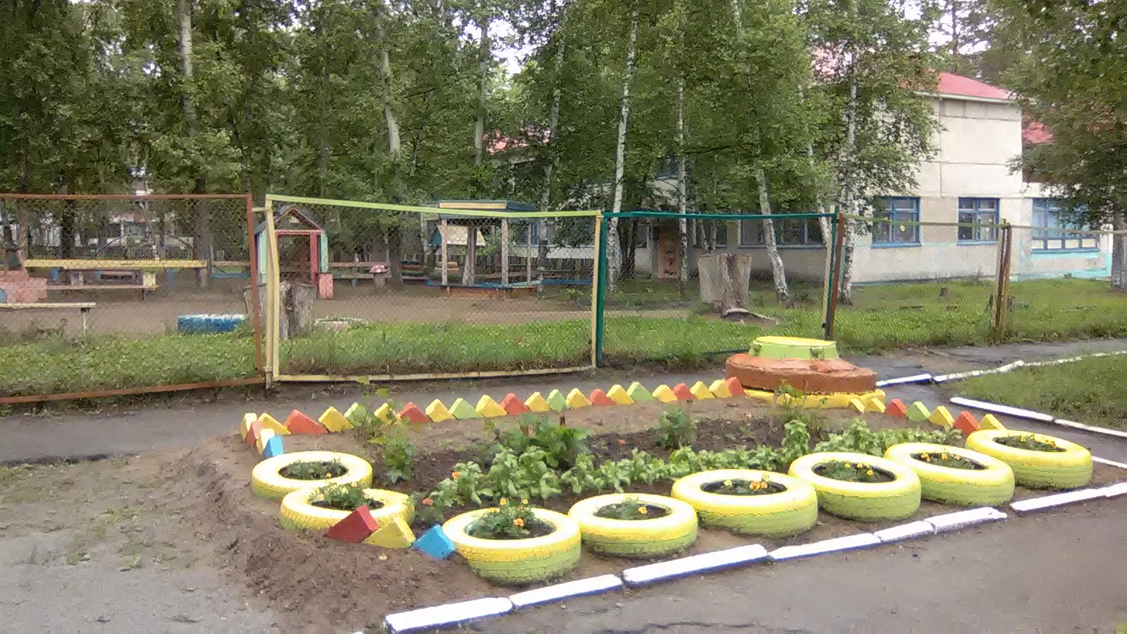 Детский сад